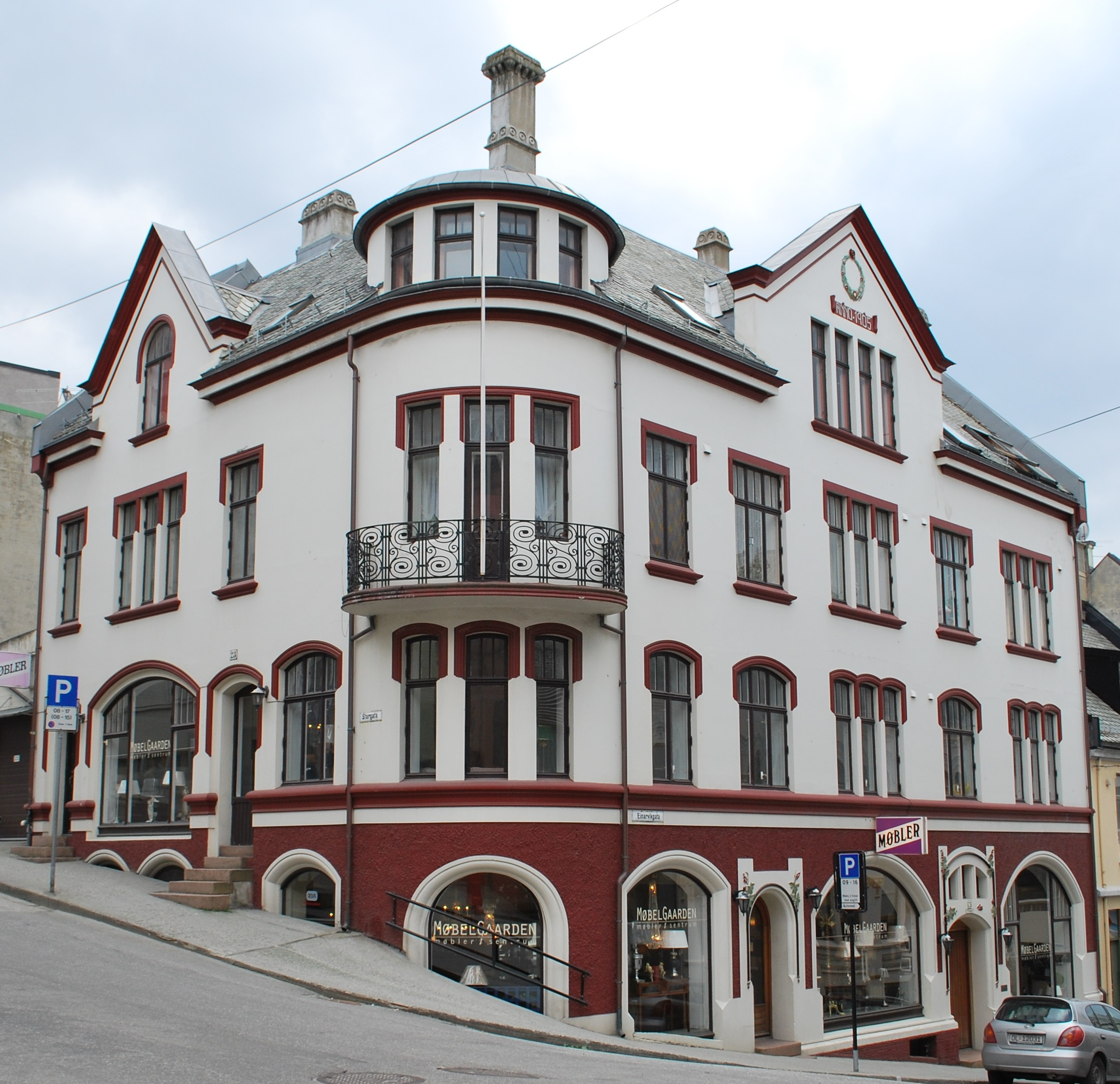 Storgata 23, Ålesund.